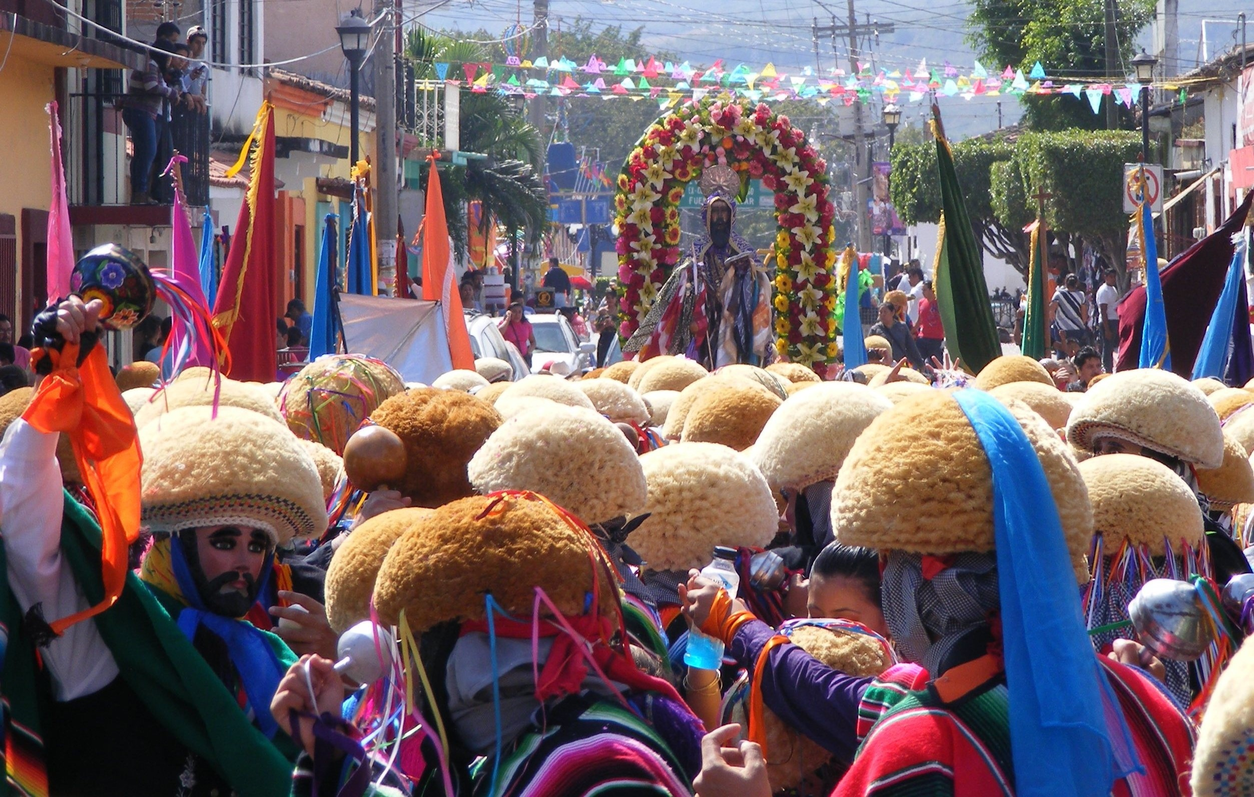 Sain Antony Abbot. This photo has been taken in the country: Mexico